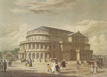 F. E. Schmidt: Semper's first opera house in Dresden, opened 1841. Etching, coloured by hand. Dimensions: 21.3 cm x 26.5 cm (plate). H R Beard Collection; Victoria and Albert Museum - Theatre Museum, London. Museum number: S.3889-2009, Link